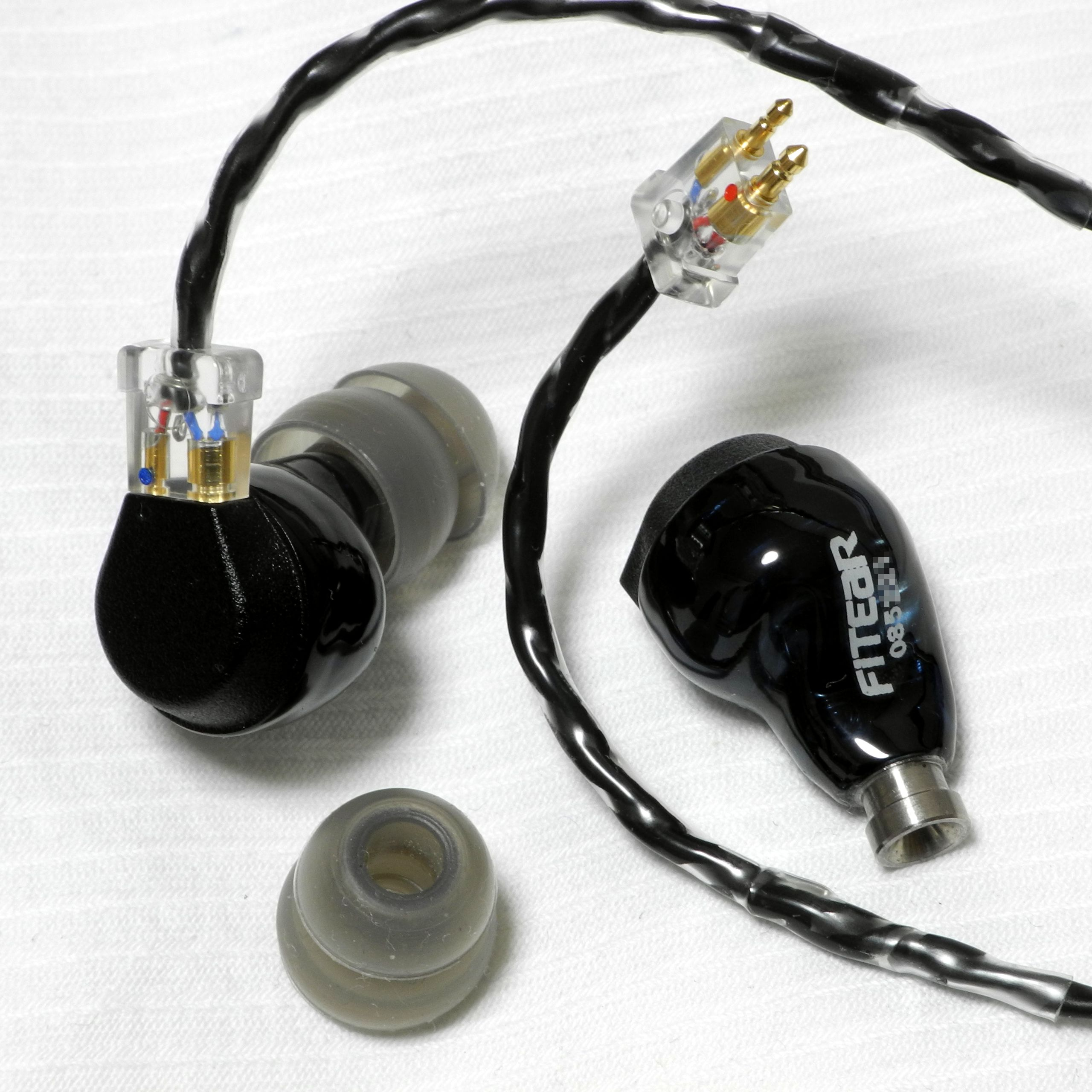 FitEar Parterre